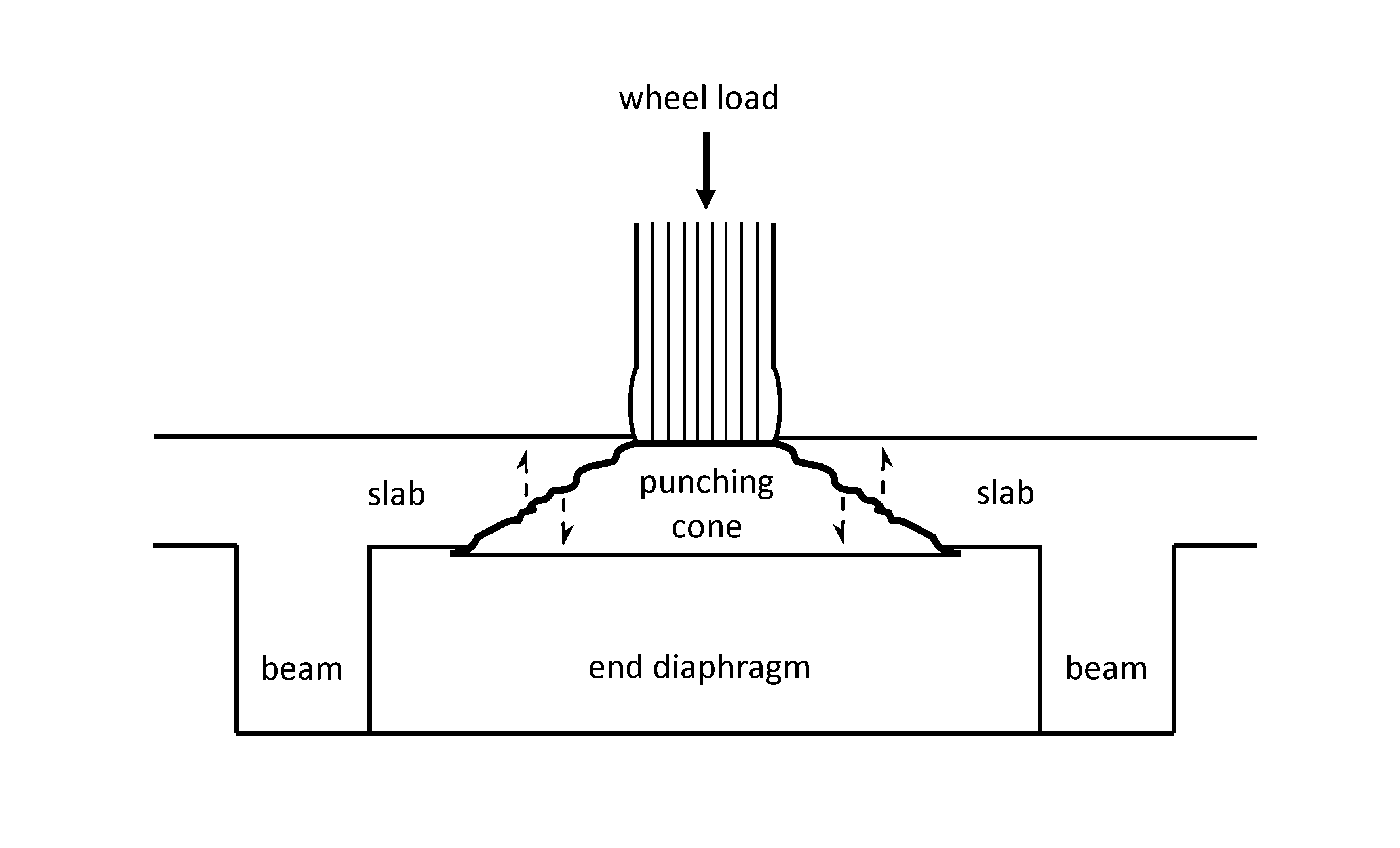 Punching failure in beam and slab bridge deck;Other information: this drawing has not previously been published